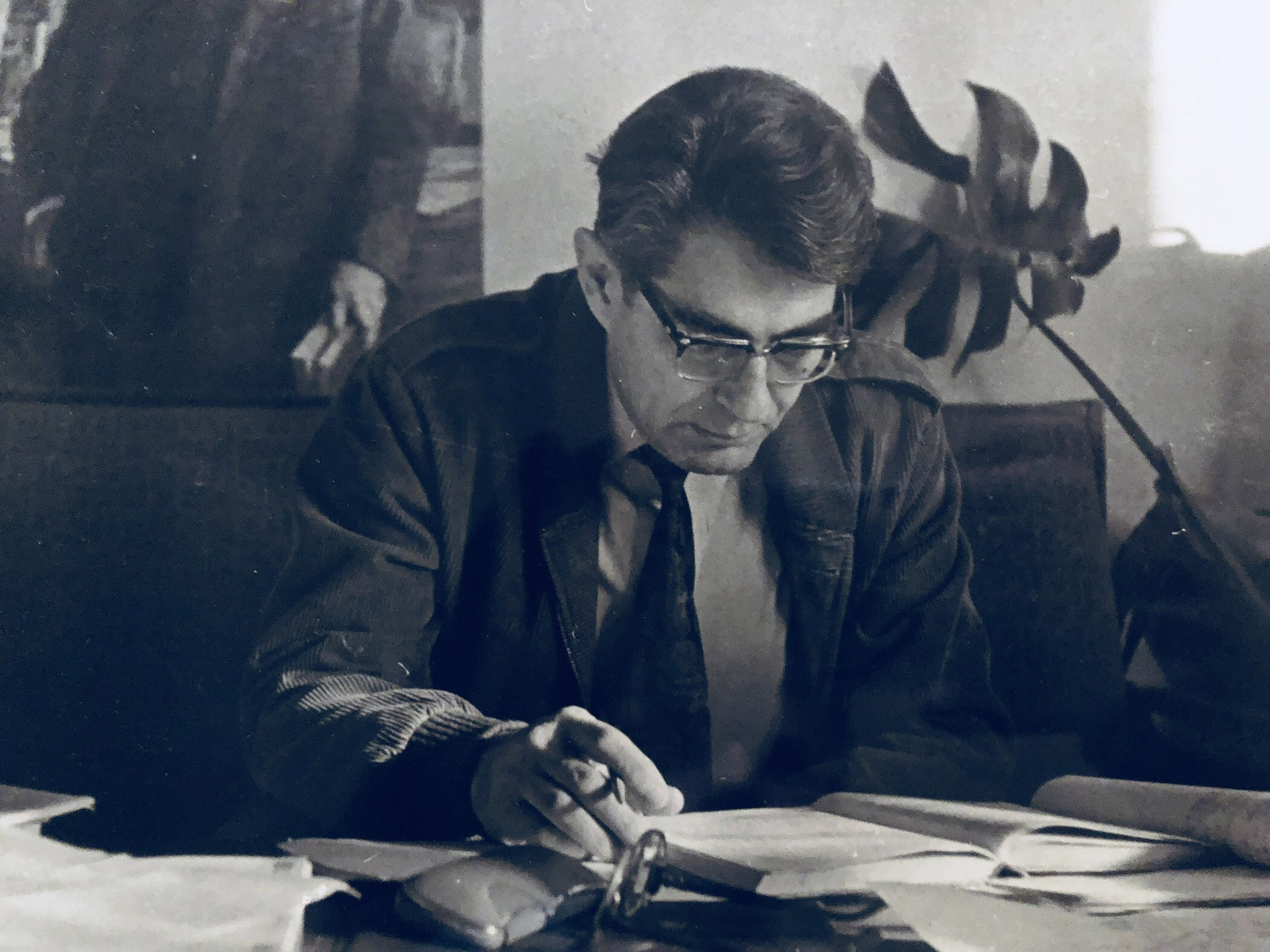 Prof D.Sc. eng. Evgeny Vatev Vatev - 1960’s, Scientific research